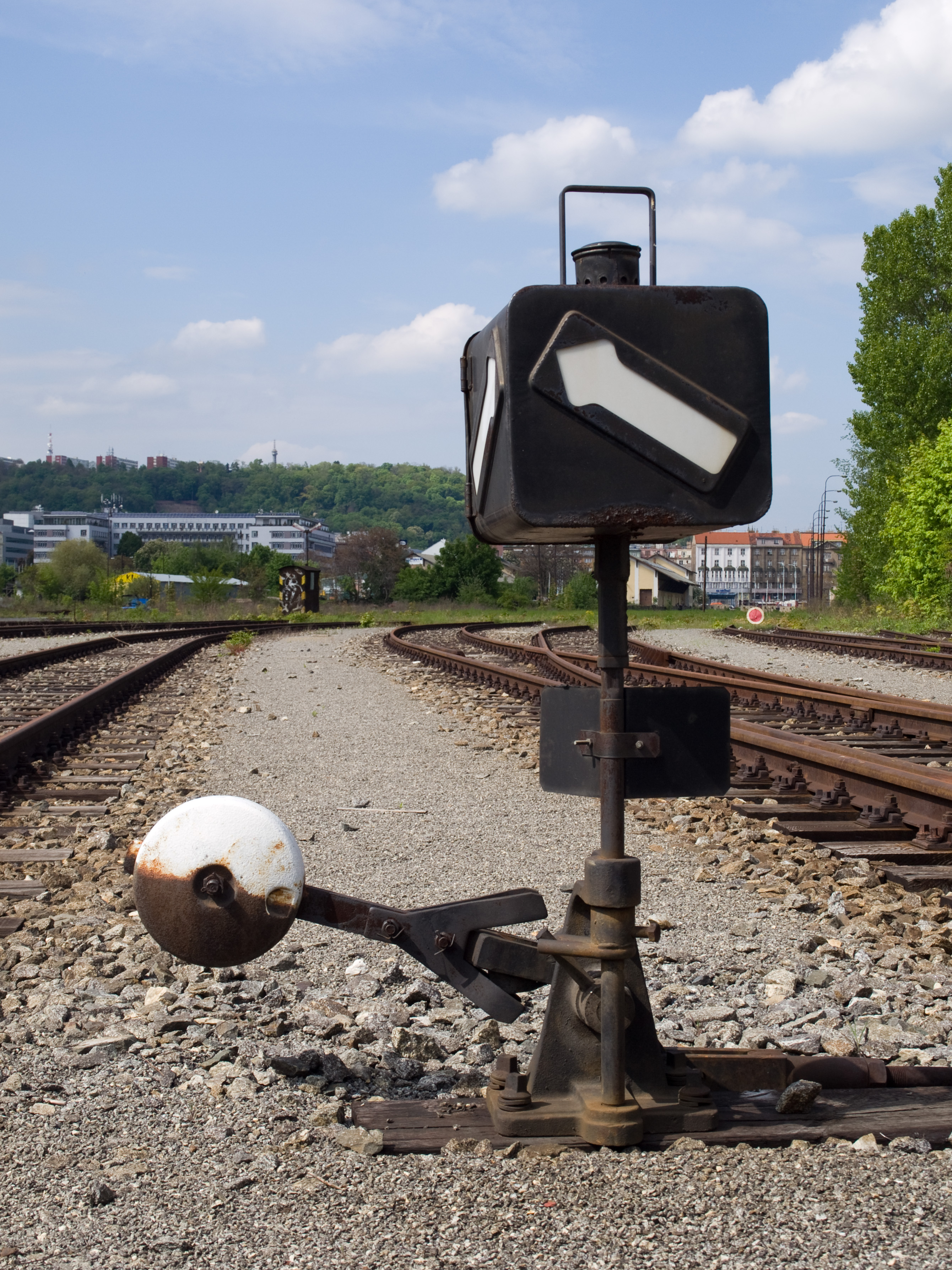 Point, Praha-Smíchov seřaďovací nádraží, Prague, Czech Republic